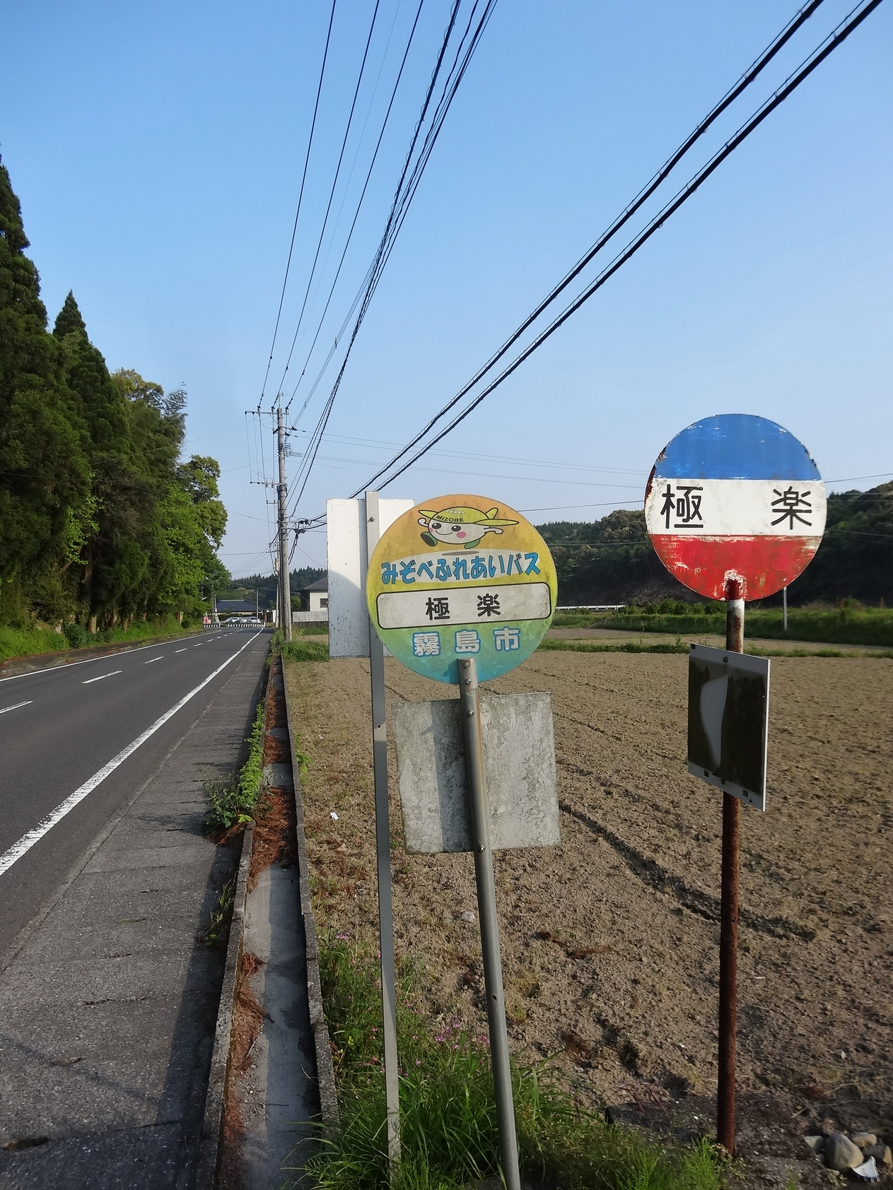 The ruin of Gokuraku (In Sanskrit it is called Sukhavati) Bus Stop (Mizobe, Kirishima City, Kagoshima Prefecture, Japan)